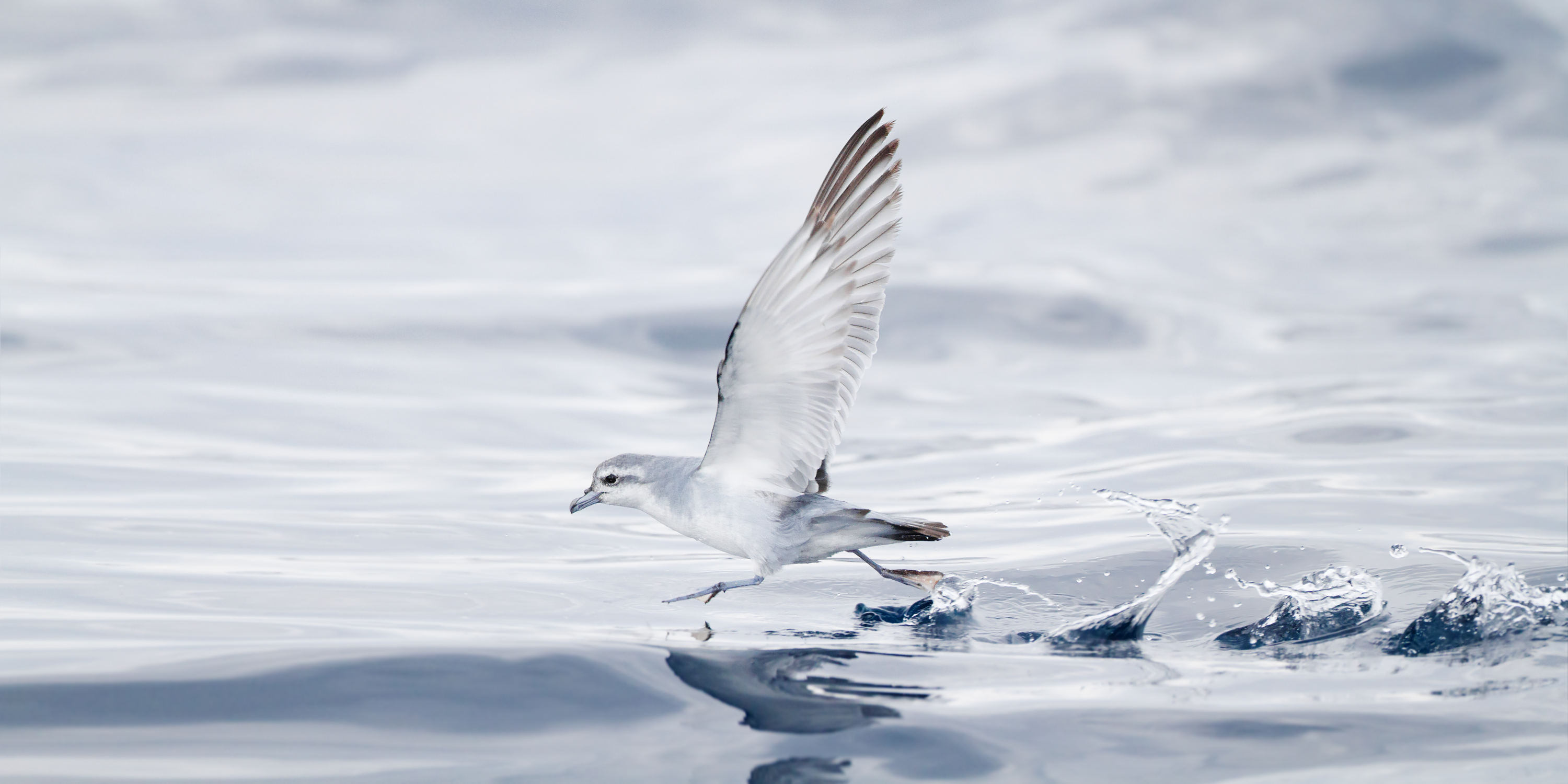 Fairy Prion (Pachyptila turtur), East of the Tasman Peninsula, Tasmania, Australia